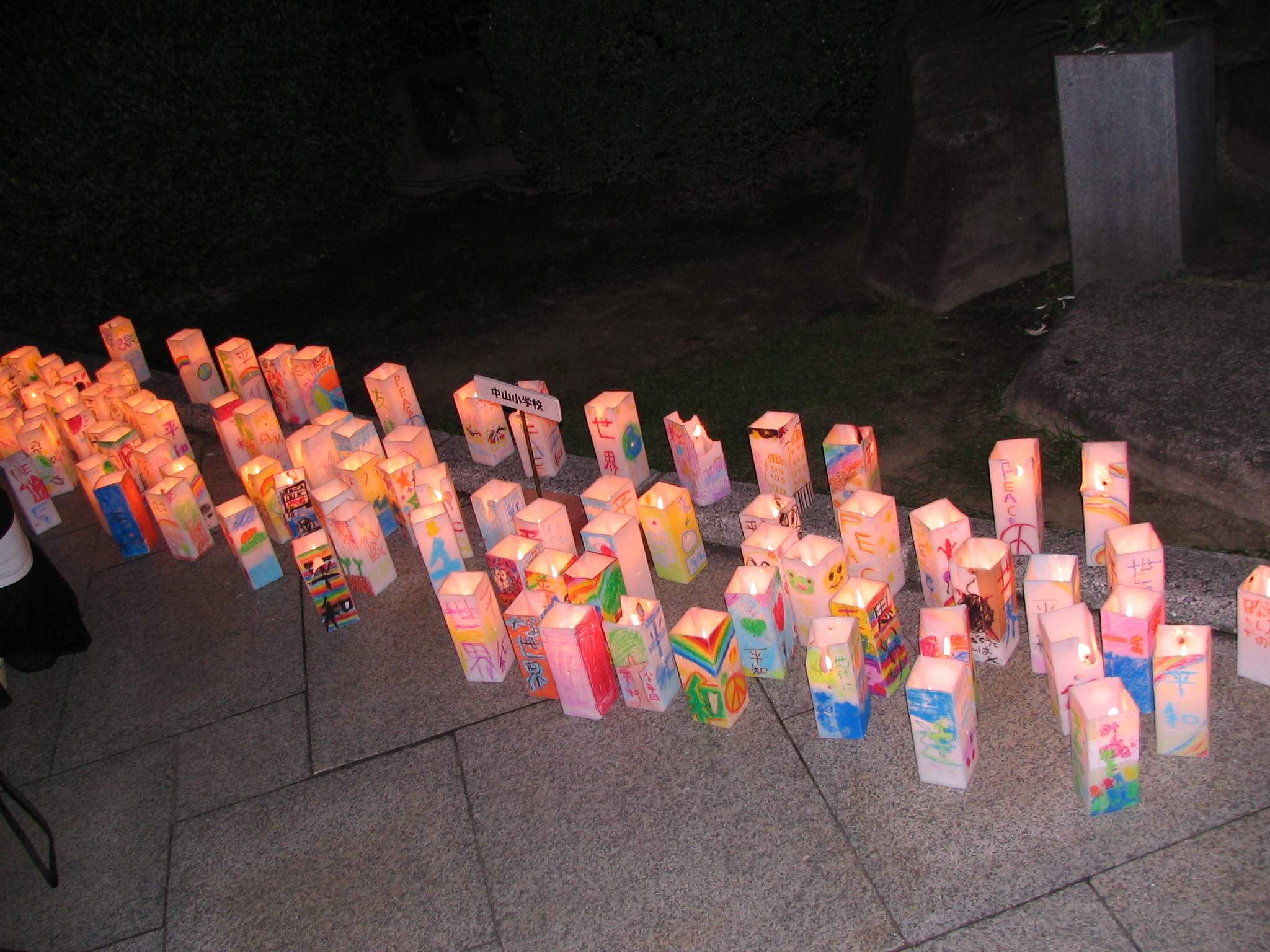 Tōrō nagashi that wat made by kids and young people (I'm among those), to be floted in the river in Hiroshima, as part of the Hiroshima Peace Memorial Ceremony.